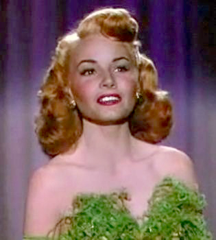 Janet Blair in Tonight and Every Night - trailer (cropped screenshot)